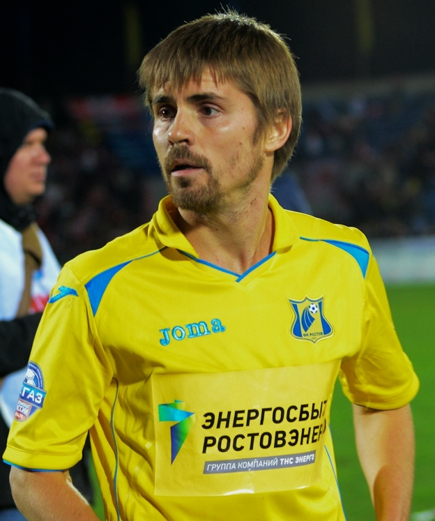 Dmitri Torbinski